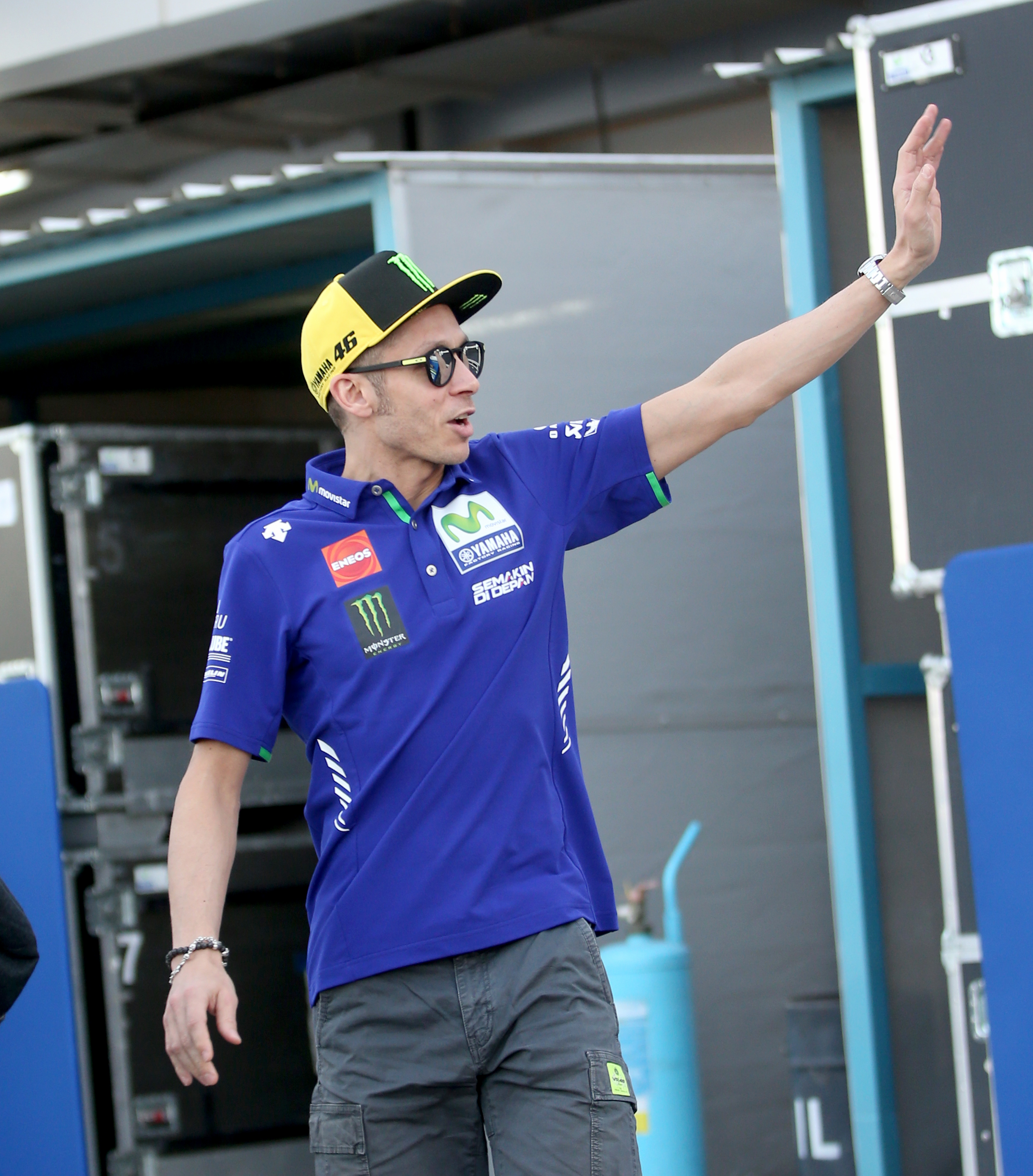 Pic by Mohan